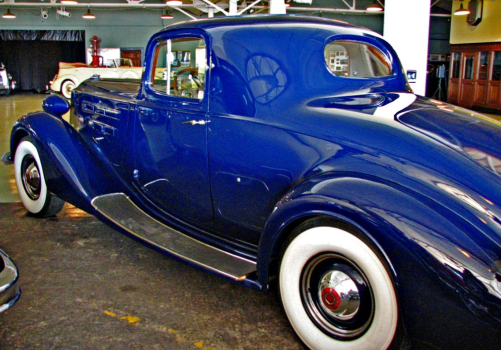 Owned by Charles Blackman, the restored Packard is on display at America's Packard Museum in Dayton, Ohio. Charles, a friend for more than 80 years, told me he bought the car from Columbus Packard in 1956 and drove it to Michigan. The rare Packard has a golf club compartment and a V12 engine.